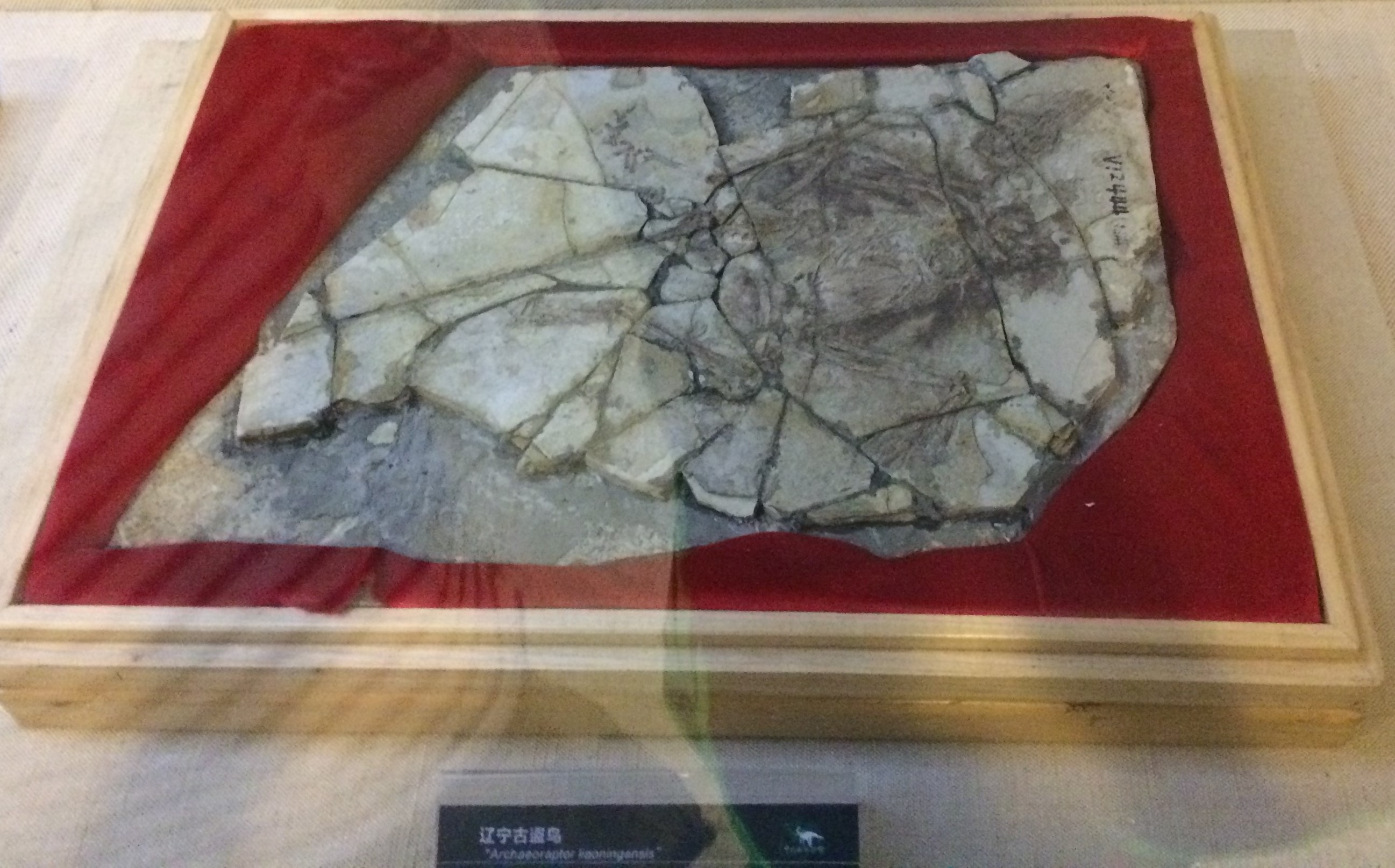 Archaeoraptor composite fossil at the Paleozoological museum of China